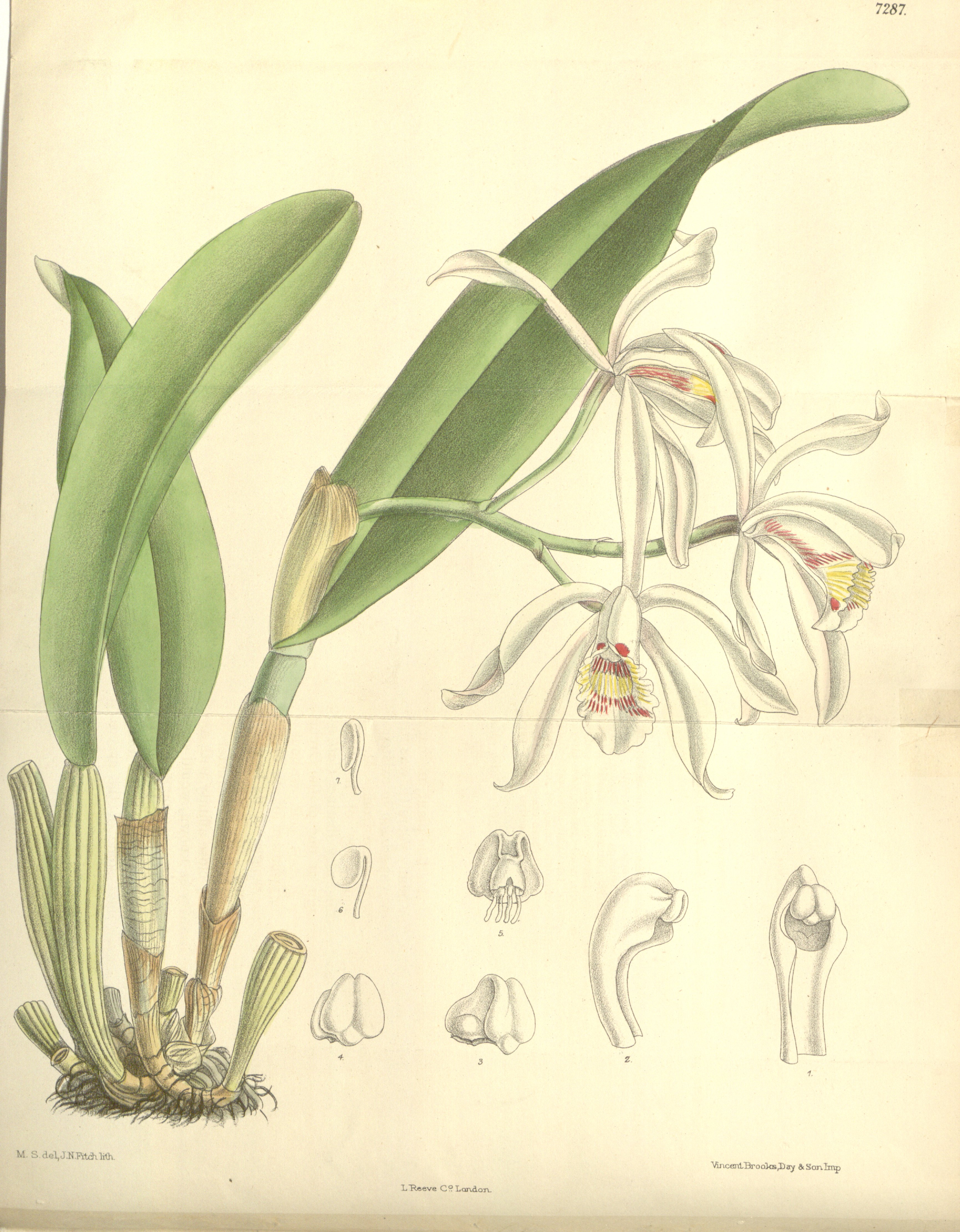 Illustration of Cattleya iricolor